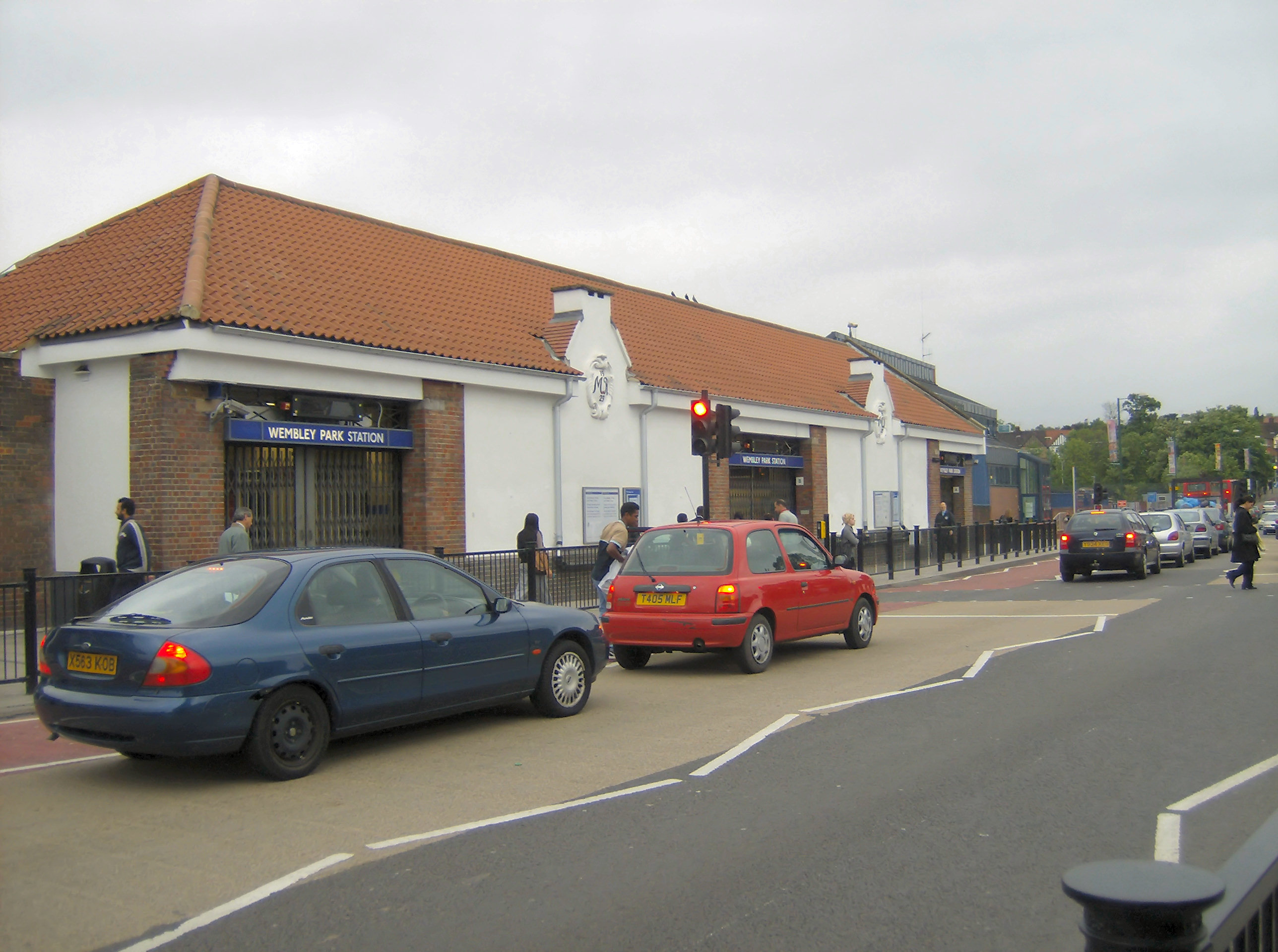 The old station building to Wembley Park tube station, opened in 1923 when the original Wembley Stadium opened. An extension to the station (which can be seen at Image:Wembley Park tube station extension.jpg) was completed in early 2006, for the new stadium.